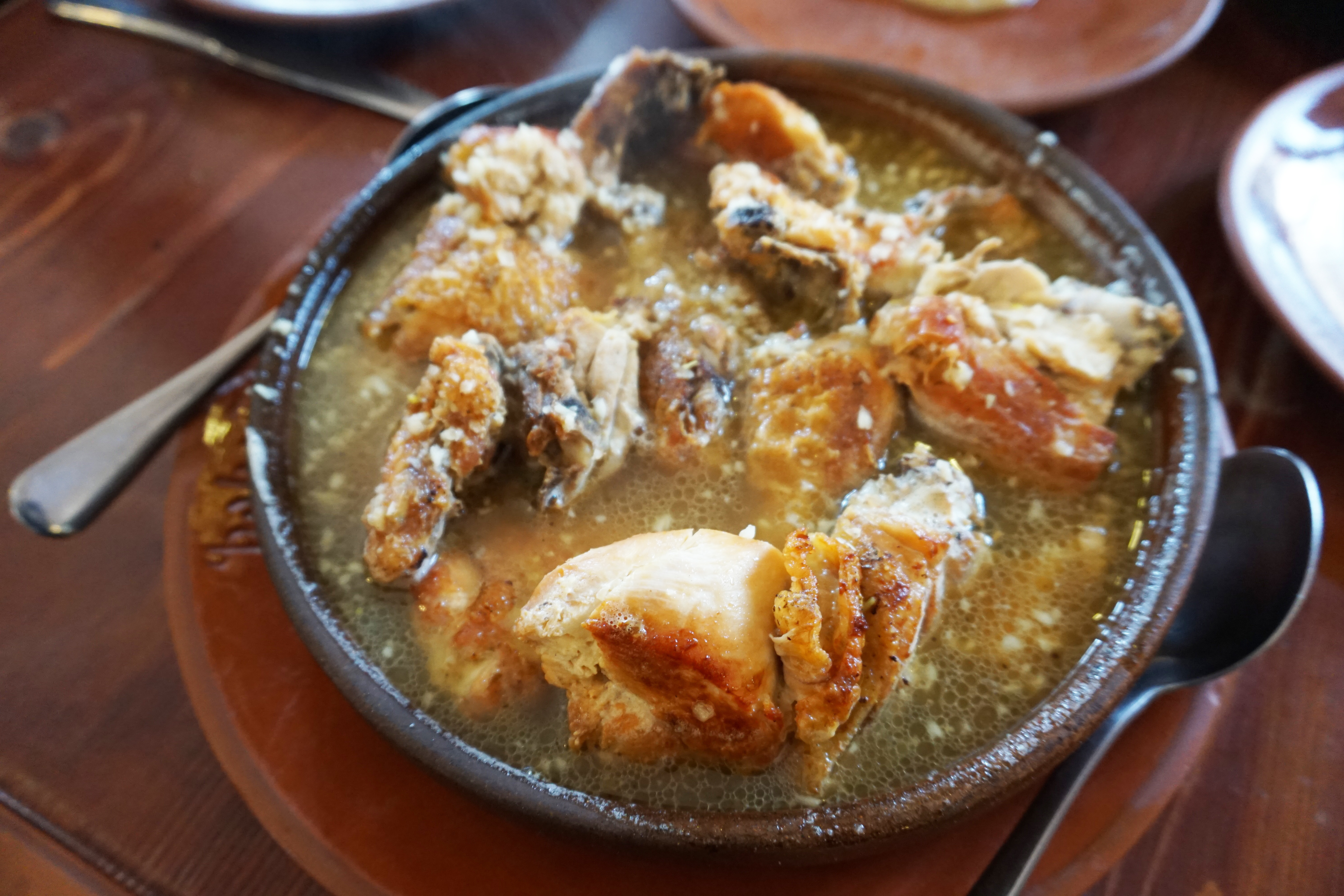 You may use this photo free IF you link back to . Links MUST be do-follow. Please do not use this photo for print materials.